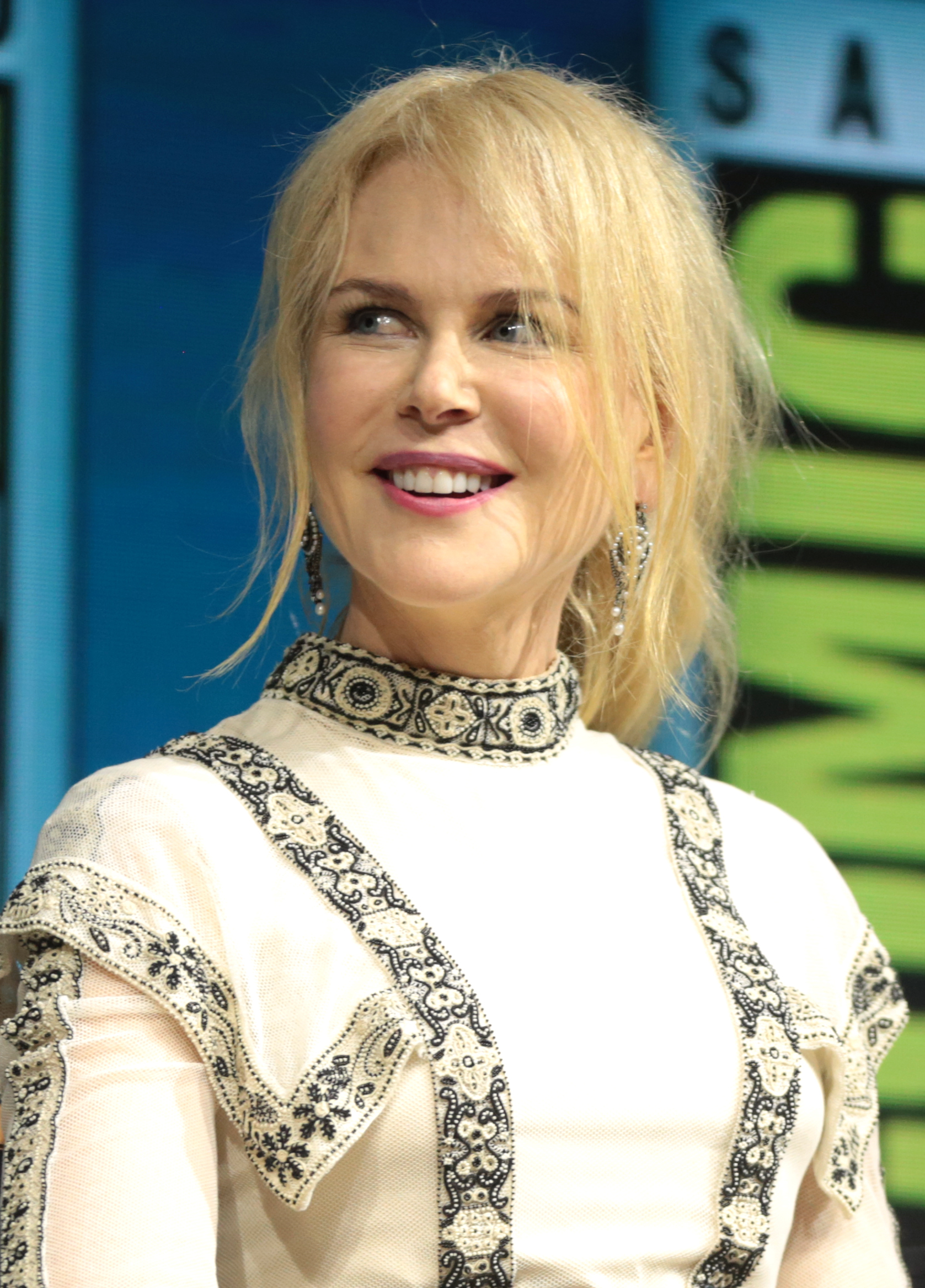 Nicole Kidman speaking at the 2018 San Diego Comic Con International, for "Aquaman", at the San Diego Convention Center in San Diego, California.